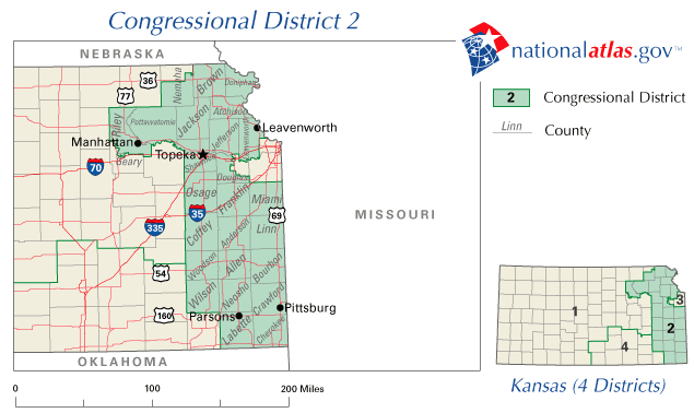 Congressional District 2 of Kansas for the 108th Congress. Also available in pdf format.